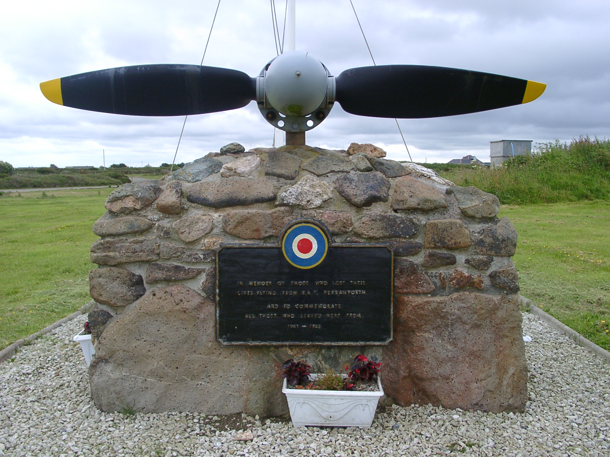 Photo of war memorial